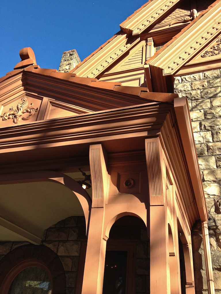 Detail of front porch of Molly Brown House, Denver, Colorado, USA.